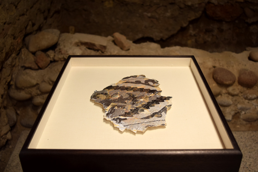 "38 Days of Re-Collection" (2014) by Steve Sabella in the exhibition 'Archaeology of the Future' at the International Center for Photography Scavi Scaligeri. Photo by Davide Papetti.